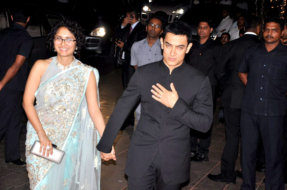 Aamir Khan with his wife Kiran Rao at Karan Johar's 40th birthday bash at Taj Lands End